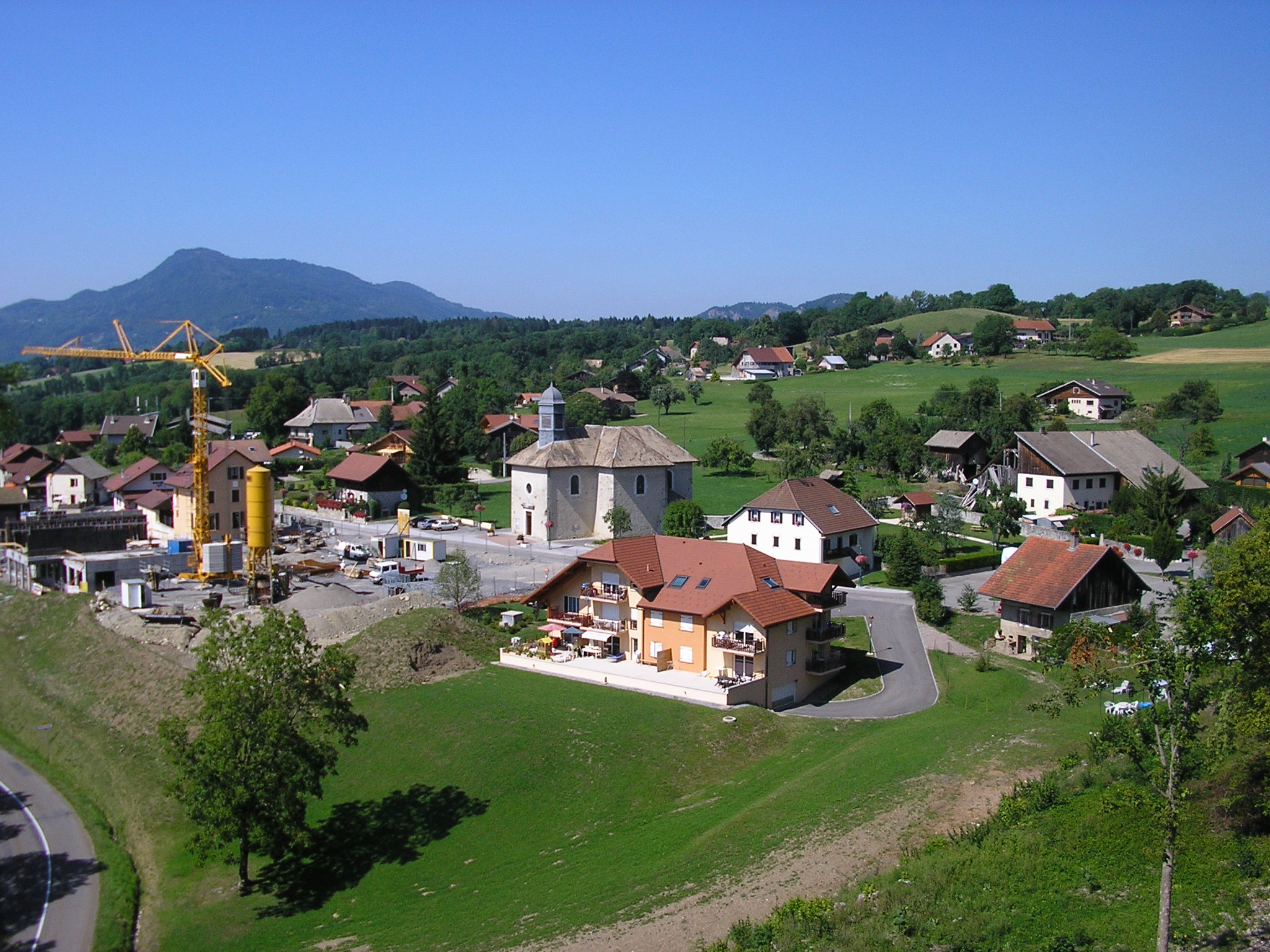 Faucigny seen from the castle.